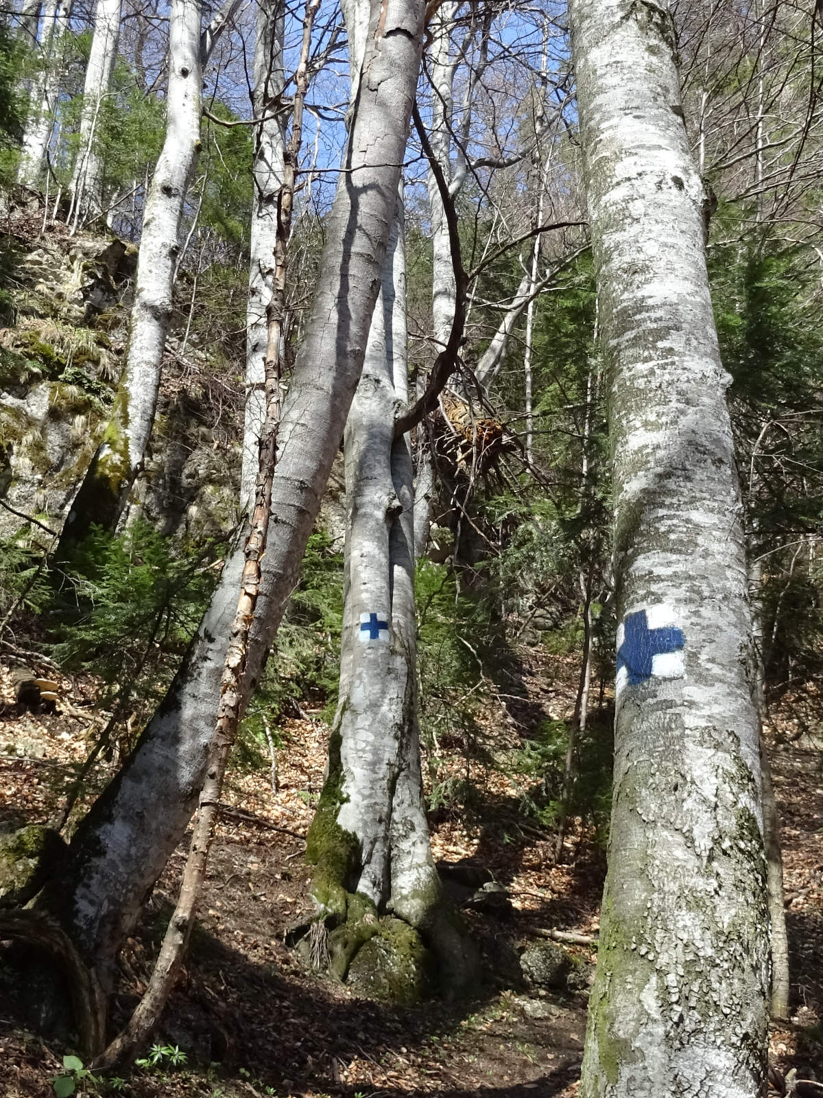 Hiking trail markings in Romania